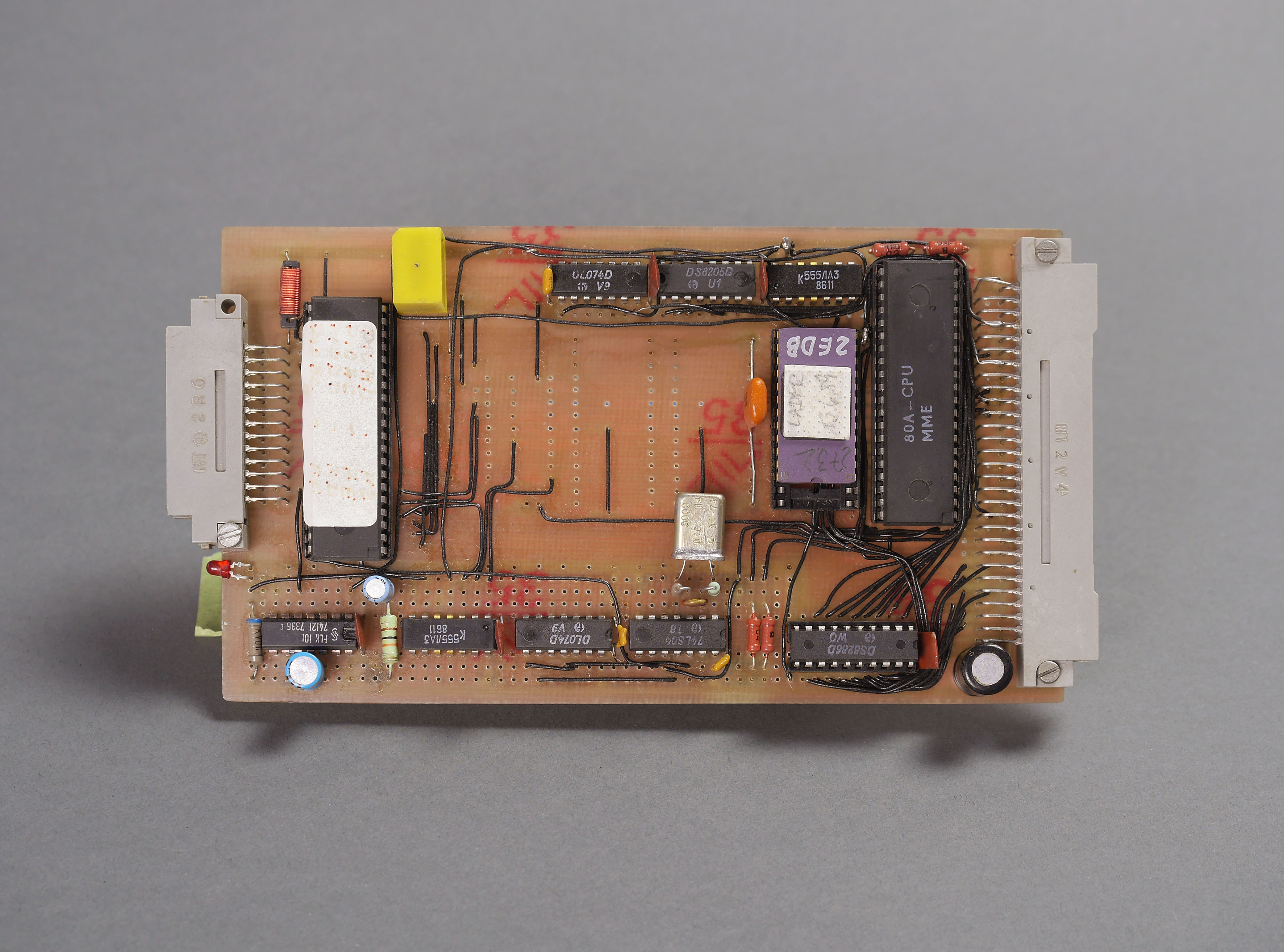 Main board of a pre-1984 PC from the GDR, built by a HAM operator.